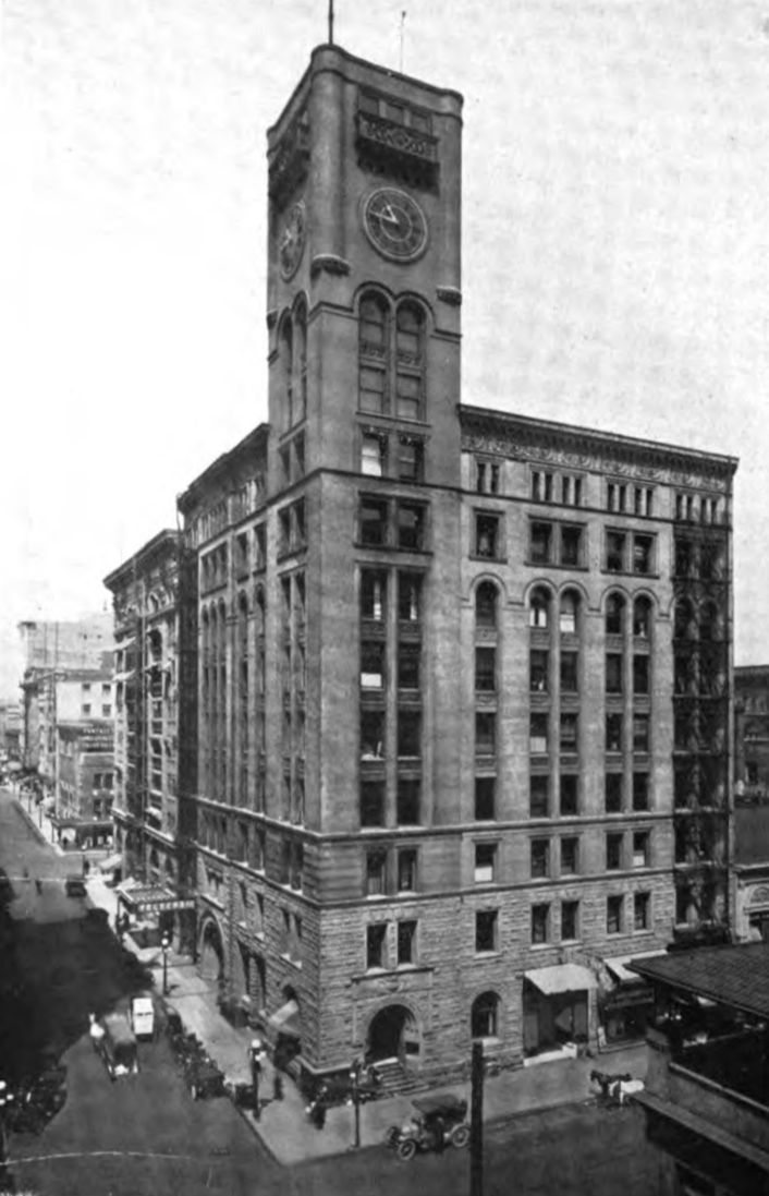 The Oregonian Building, formerly located at the northwest corner of SW 6th and Alder in downtown Portland. The building to the left of the Oregonian Building in this photo is the Electric Building, which was built in 1910 and still stands today.